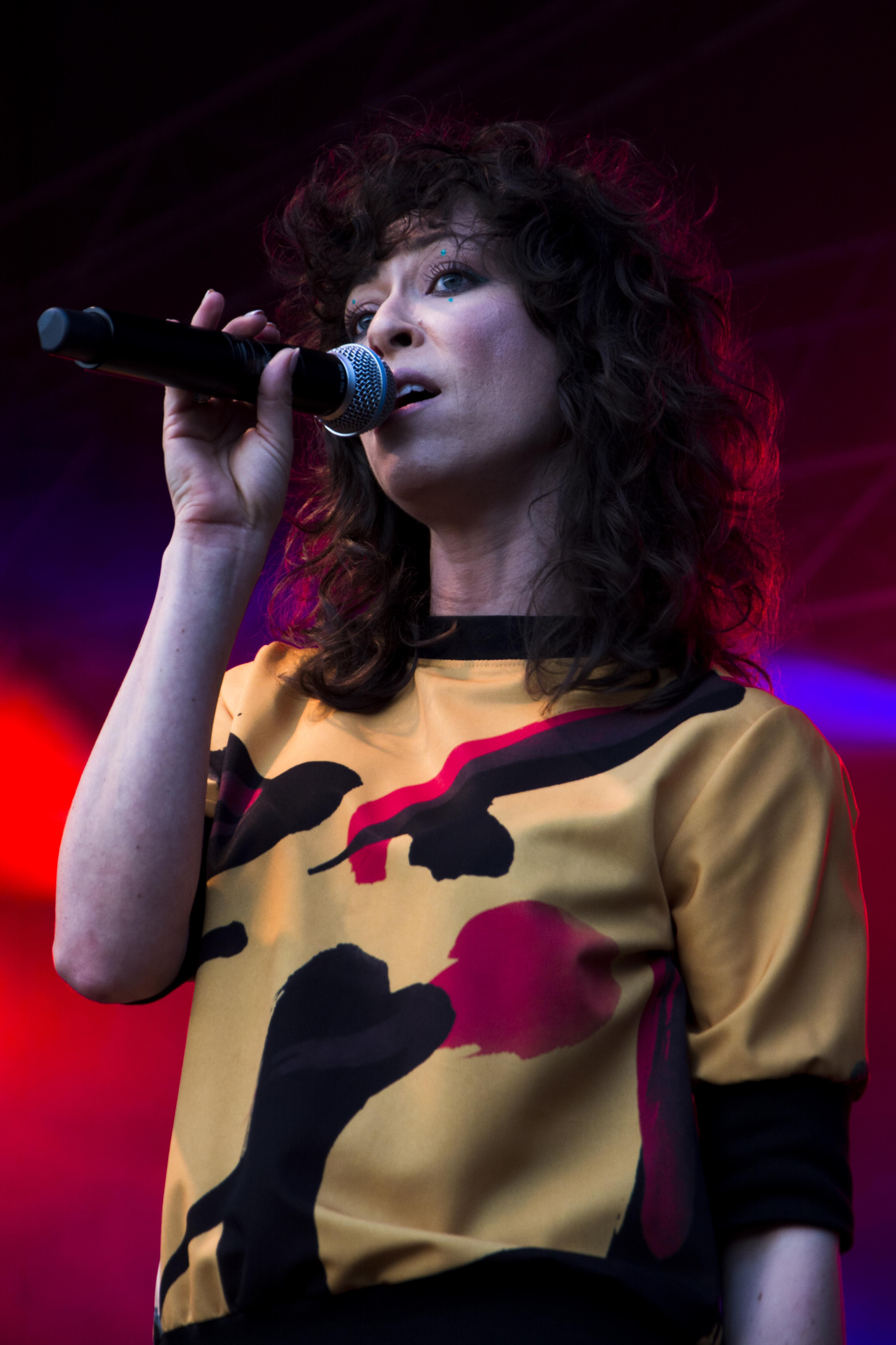 Performance of Natalia Kukulska during St. Kinga's Days, Wieliczka, 23.07.2017.